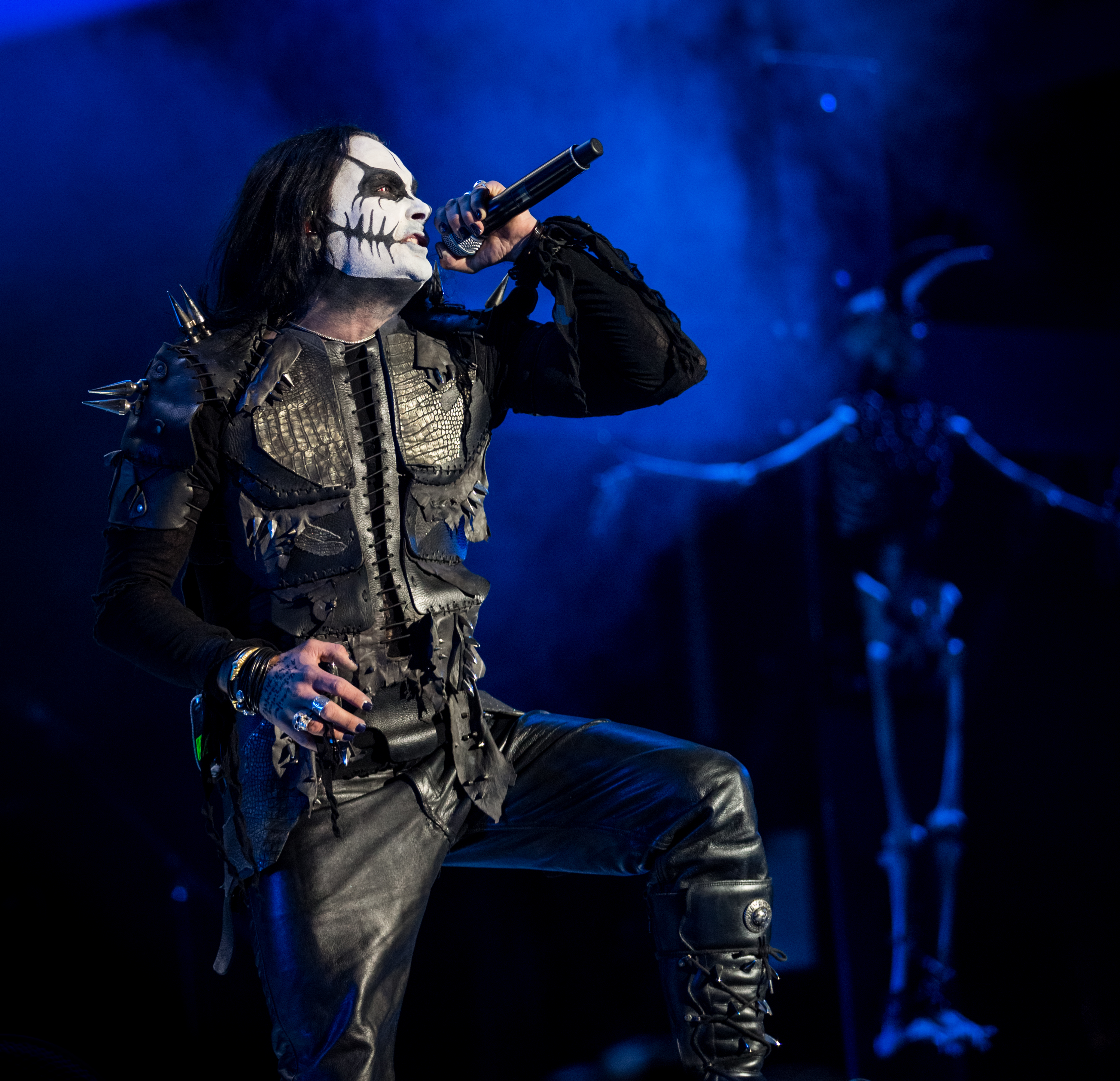 Cradle of Filth - Wacken Open Air 2015